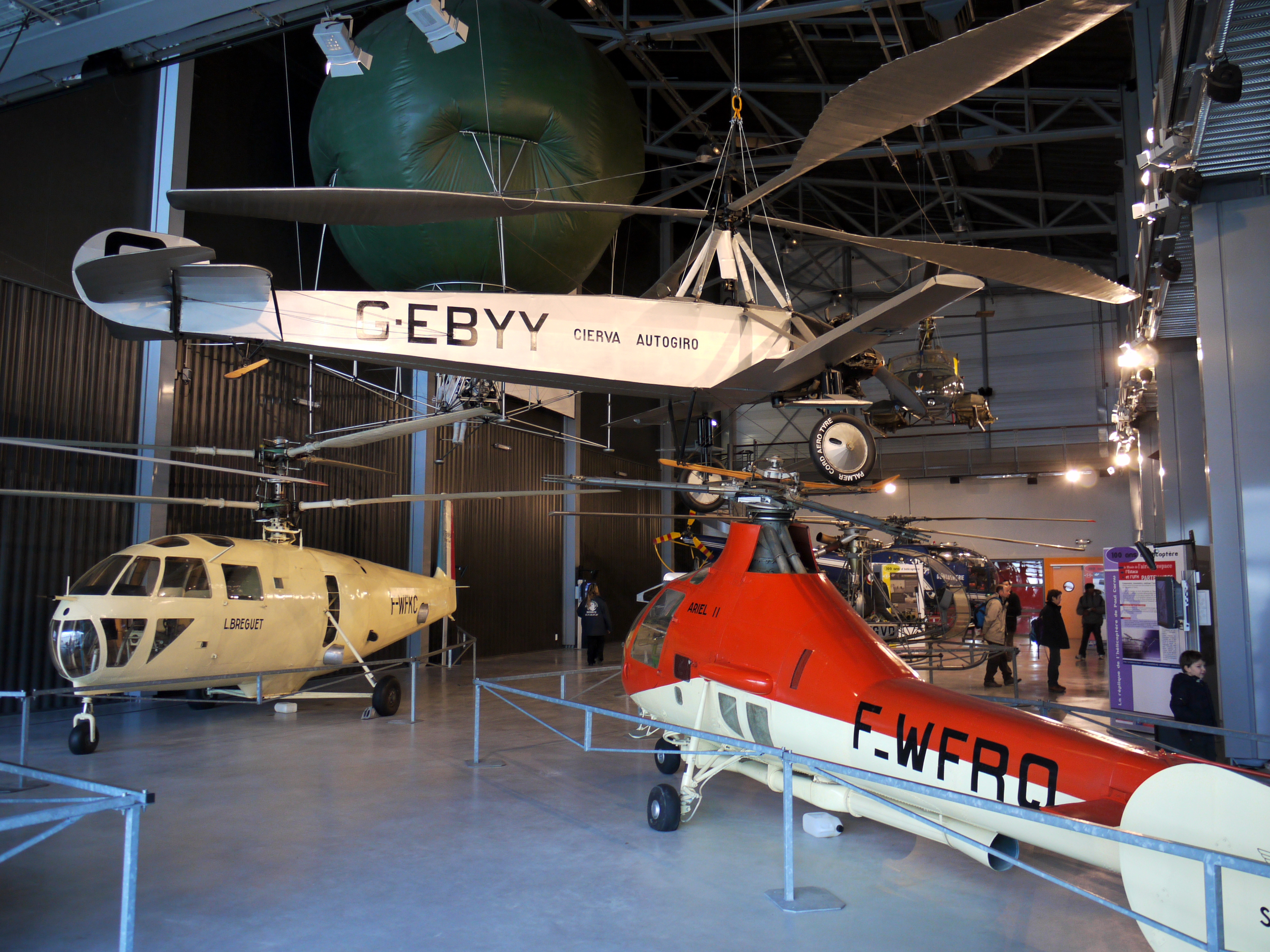 Cierva C.8L-II (G-EBYY), SO.1100 Ariel II (F-WFRQ), Breguet G-111 (F-WFKC), at the hall of helicopters in the French Air and Space Museum (Musée de l'Air et de l'Espace), Le Bourget (France).